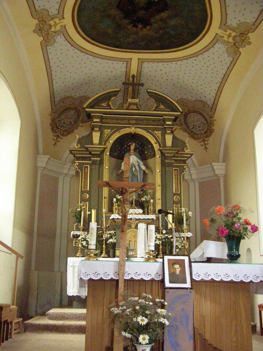 The high altar in the Church of Alsószölnök